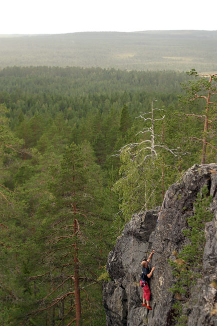 Hampusvaara, Iinattijärvi, Pudasjärvi, Finland